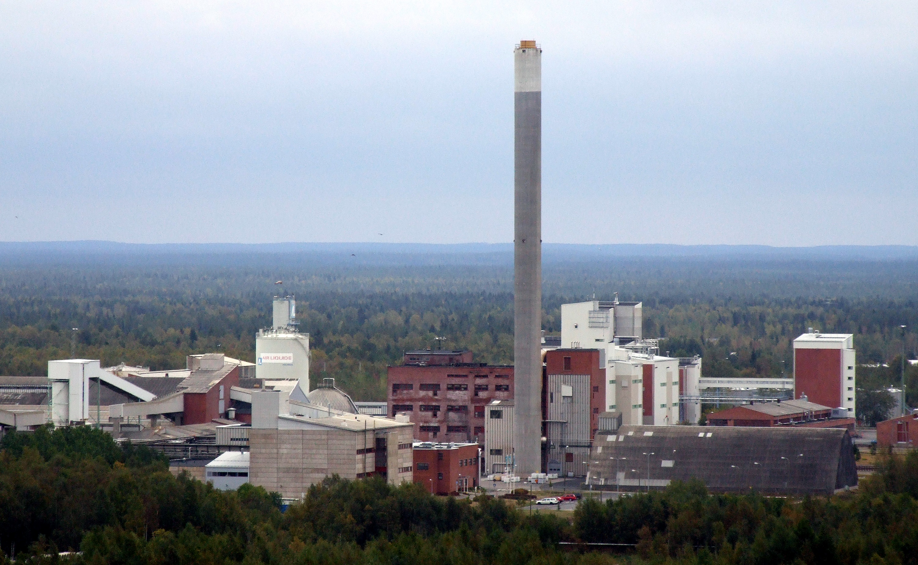 Kemira factories in Oulu.